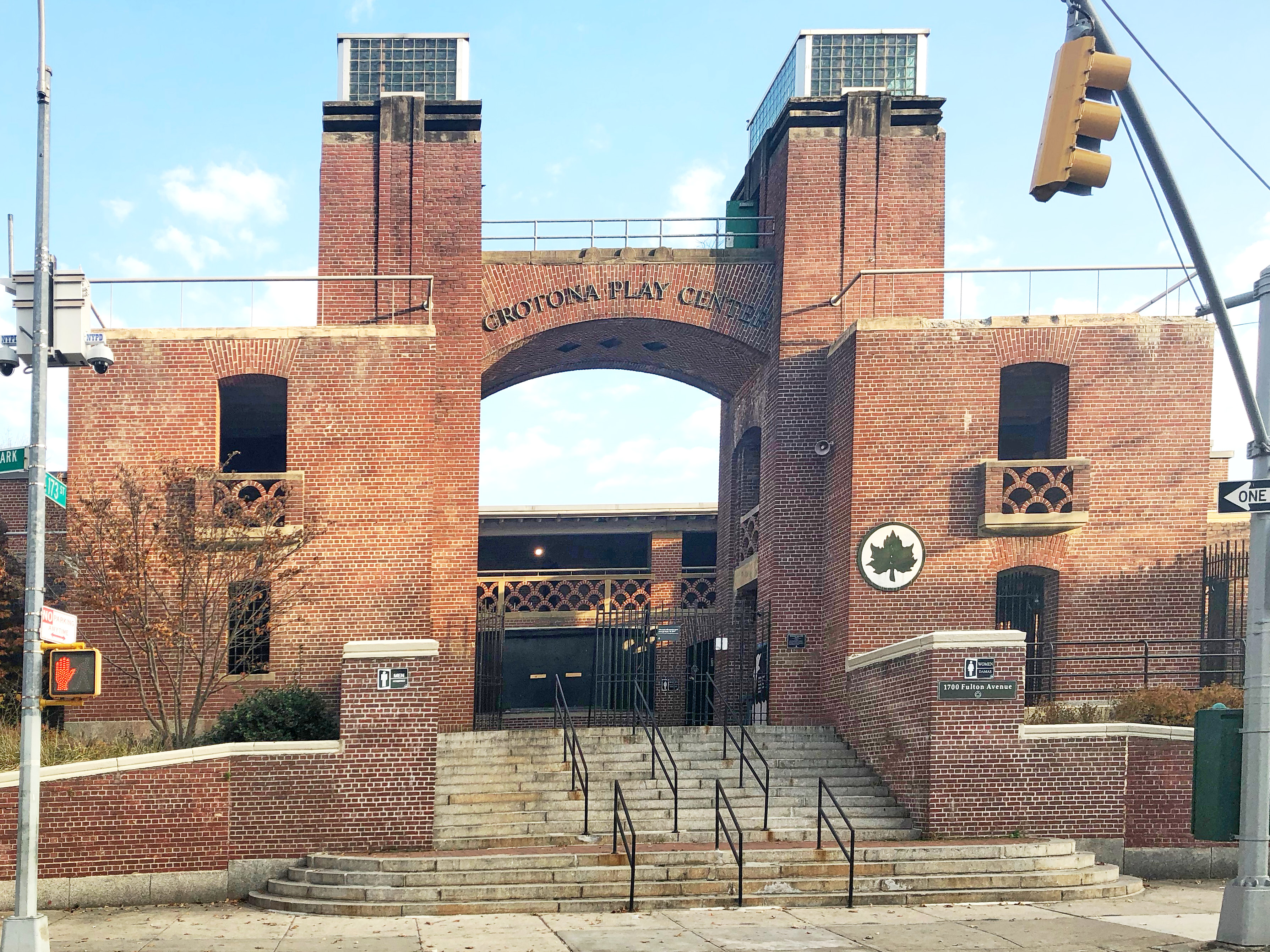 Crotona Play Center in Crotona Park, Bronx